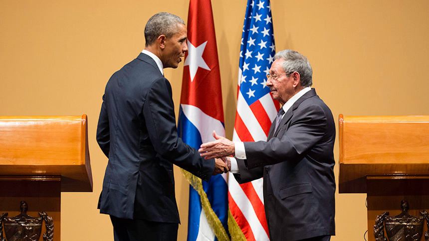 President Obama and President of Cuba Raúl Castro at their joint press conference in Havana, Cuba, Cuba, March 21, 2016. White House photo by Chuck Kennedy.